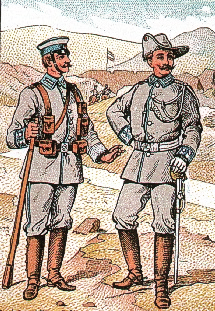 German Kolonial-Infantry for Southwest Afrika